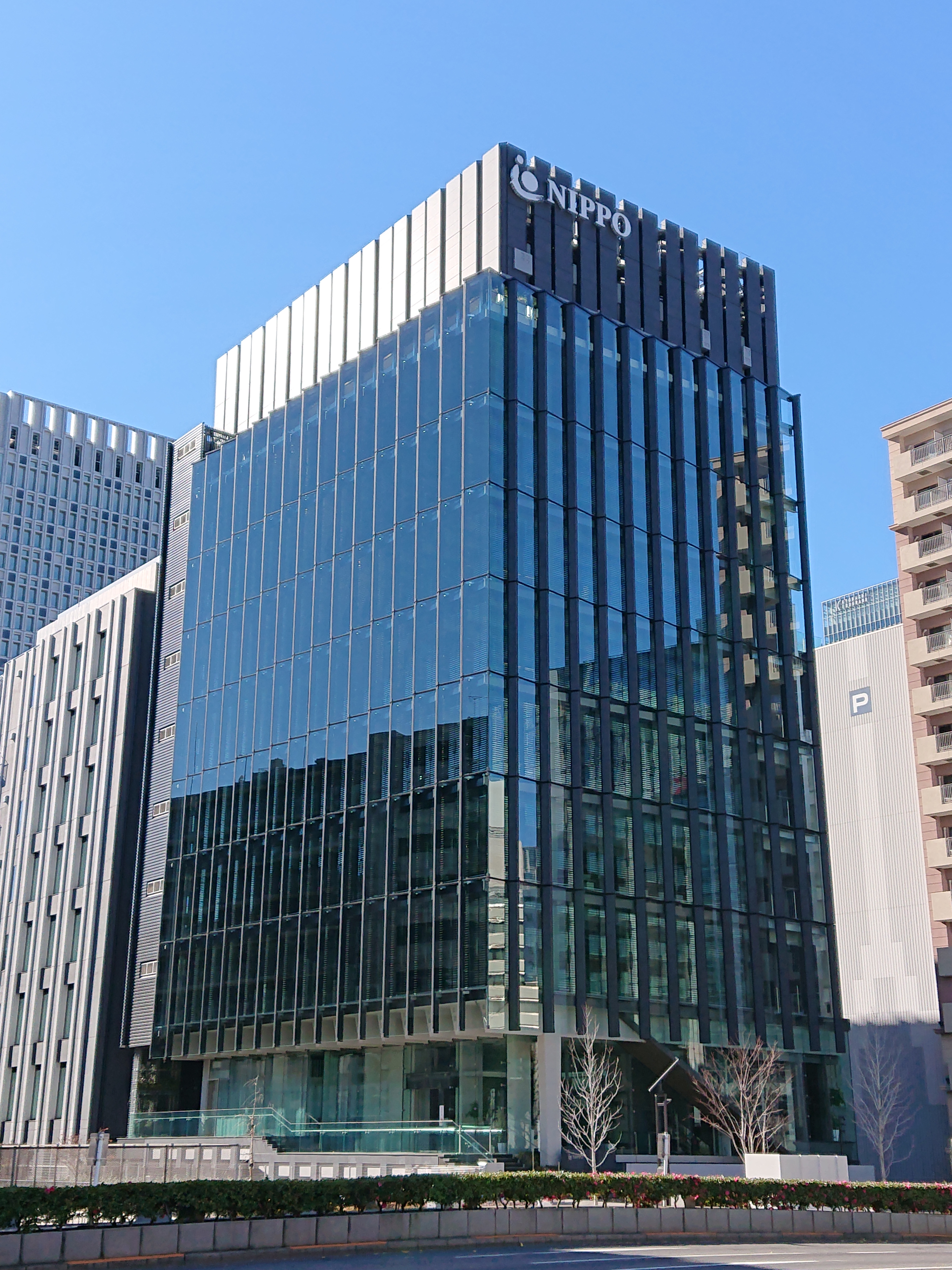 NIPPO headquarters, located at 1-19-11 Kyobashi, Chuo, Tokyo, Japan